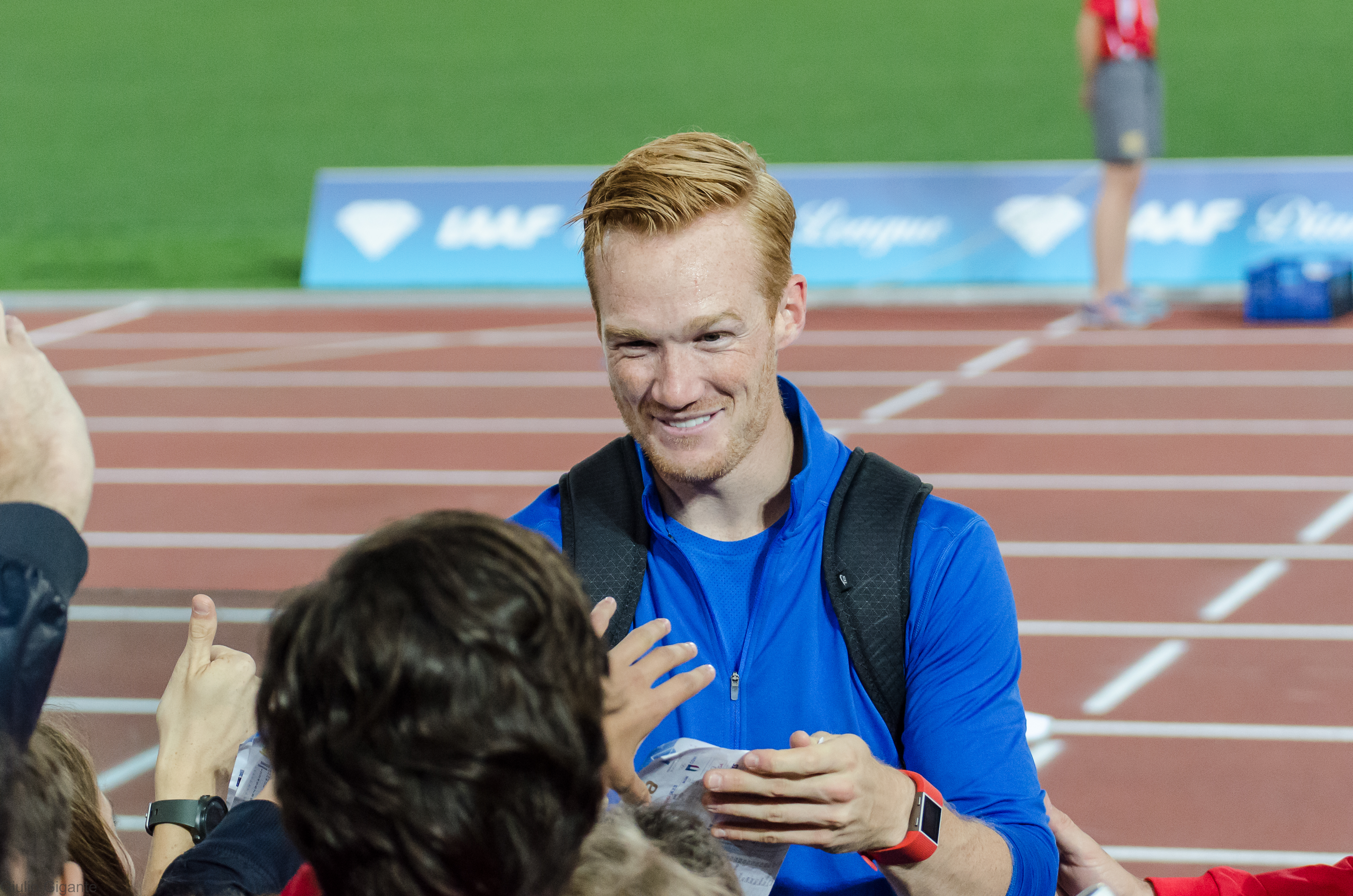 Greg Rutherford Golden Gala 2016